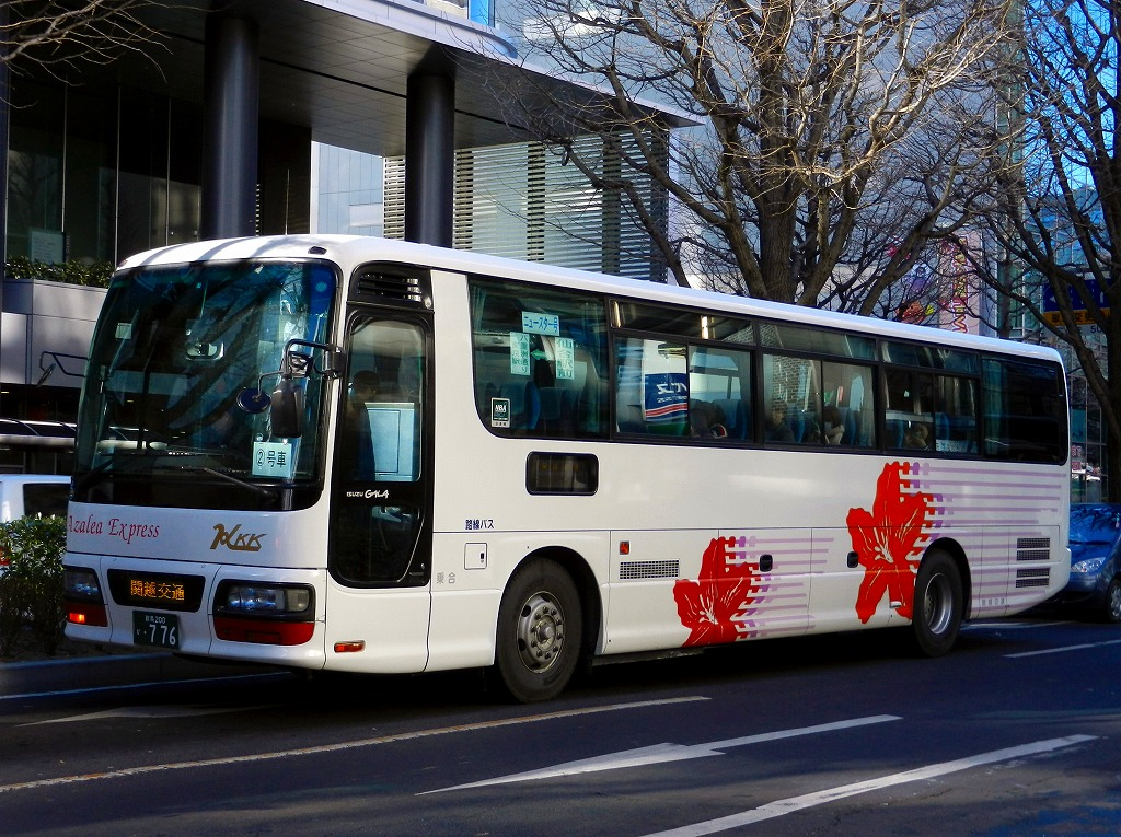 Kan-etsu kotsu Isuzu Gala (KL-LV774R2) highwaybus "Newstar"(Tokyo-Sendai) extra bus